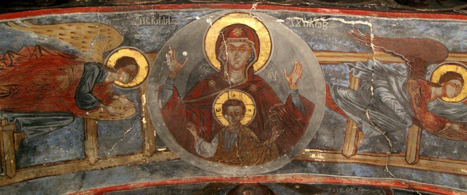 Fresco in Eptachori, Greece.